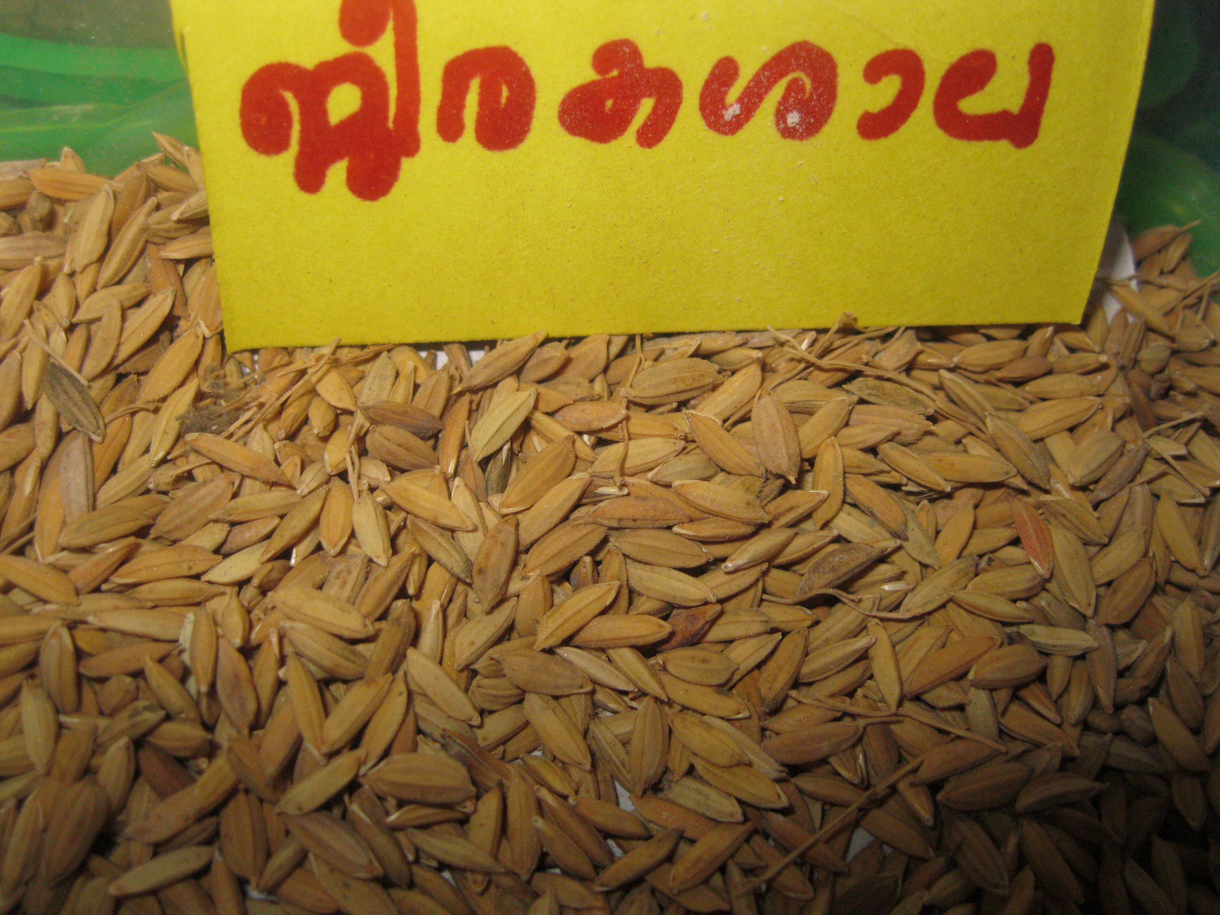 jeeraka sala, a special type of paddy seed in Kerala, India